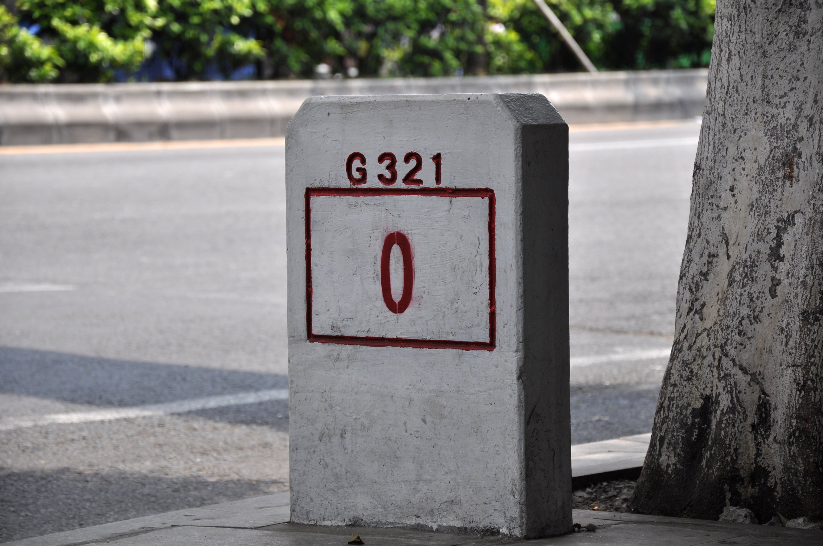 G321 0KM MILESTONE